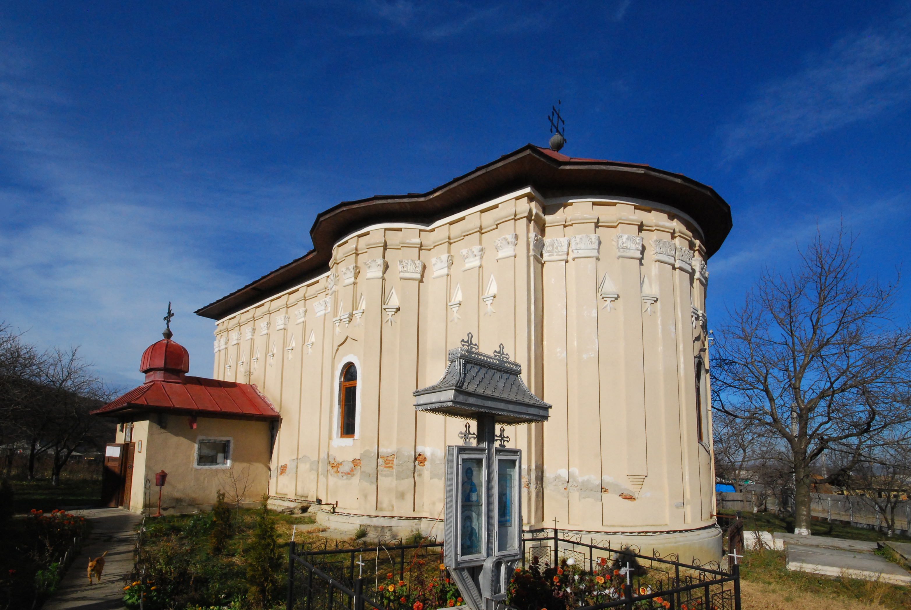 Saint Nicolas Church of Cilibiu